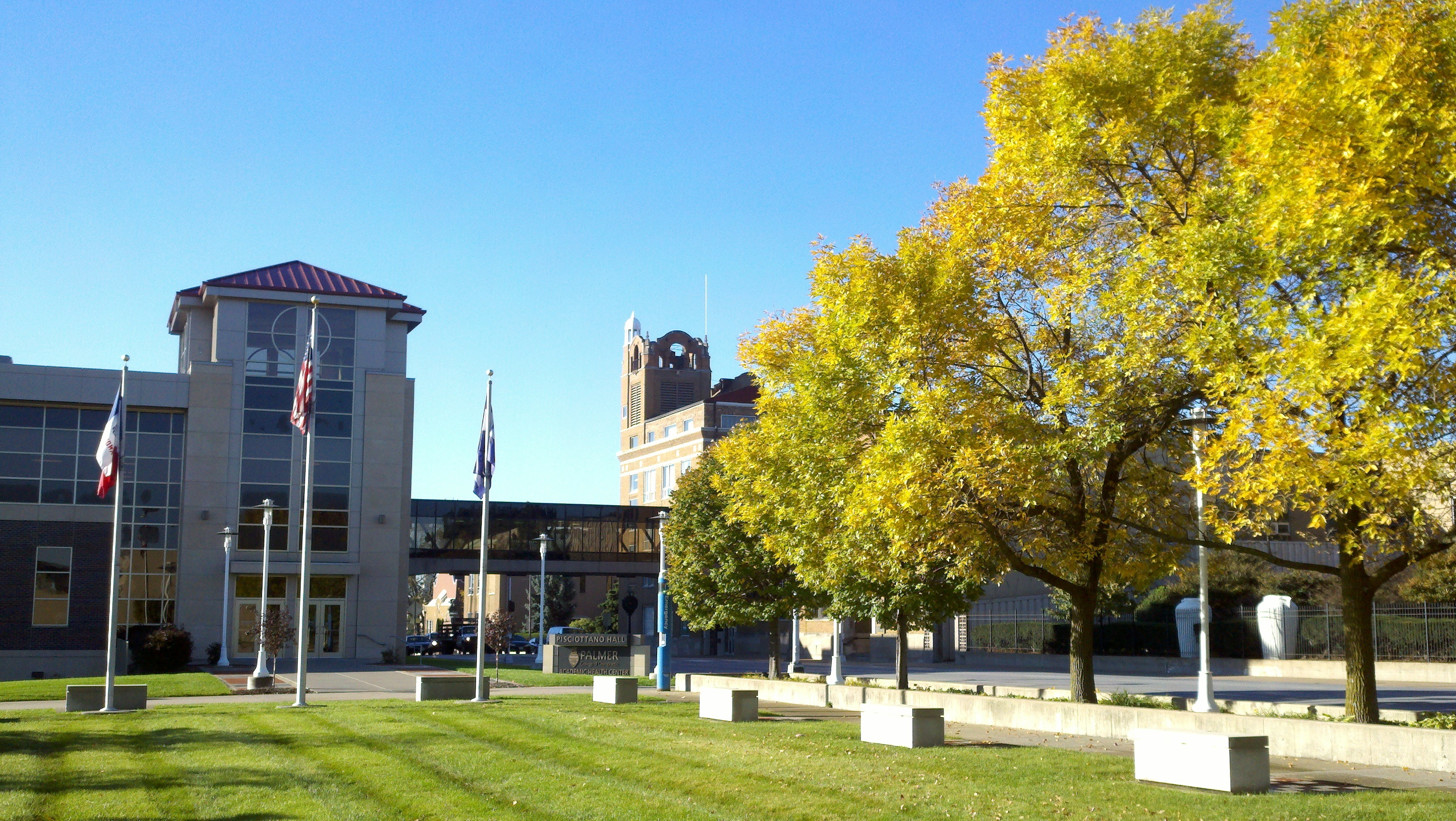 North side of Palmer College of Chiropractic - Davenport